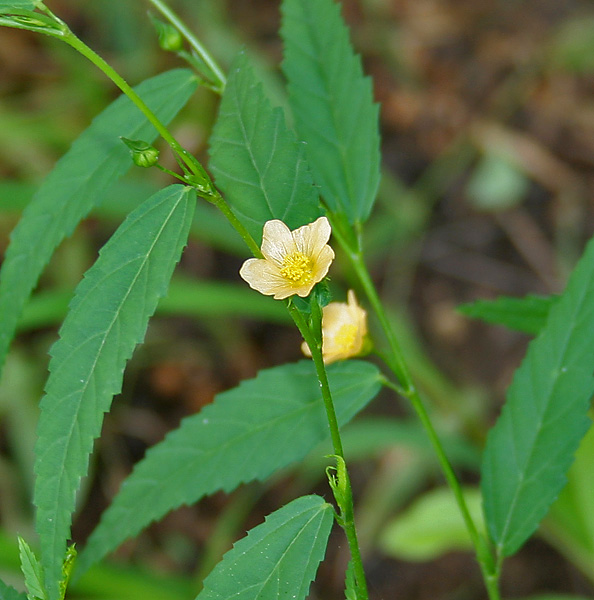 broom grass, broom weed, clock plant, Paddy's lucerne, southern sida or spiny-head sida Sida acuta in Hyderabad , India.